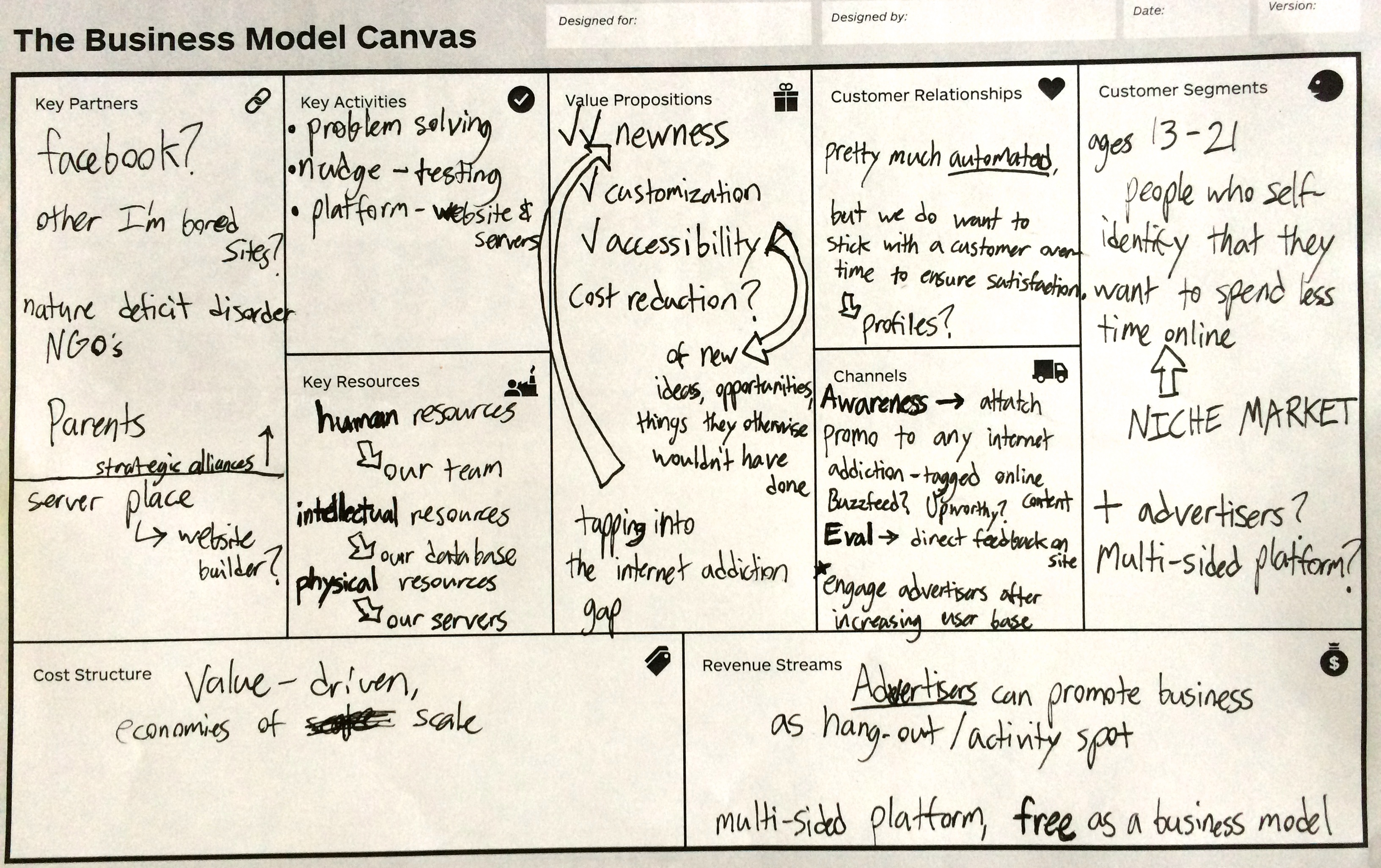 Current version of the Business Model Canvas